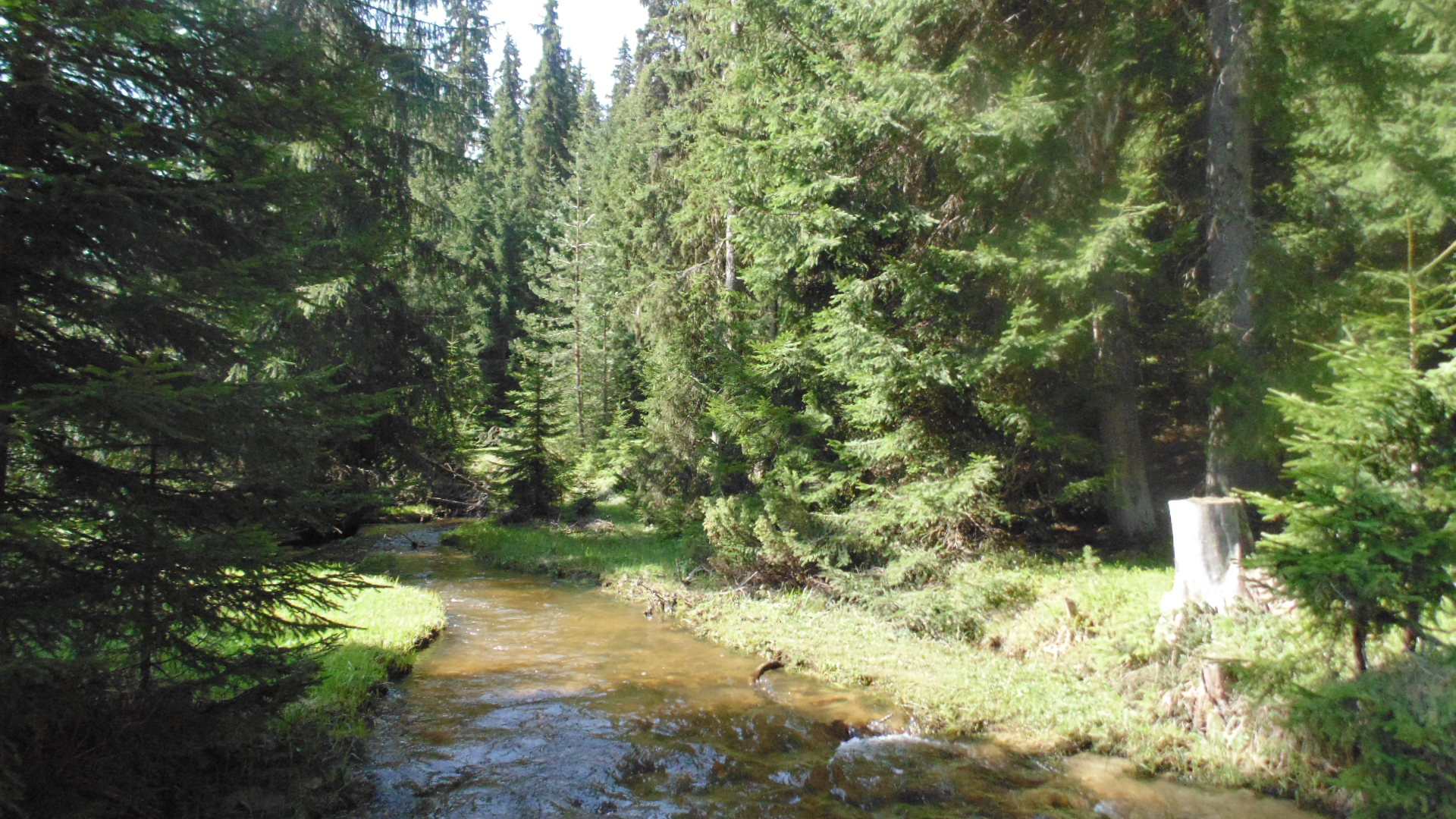 Chepinska River near Kara tepe